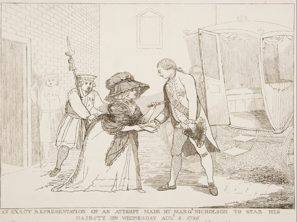 Illustration of an assasination attempt on king george III